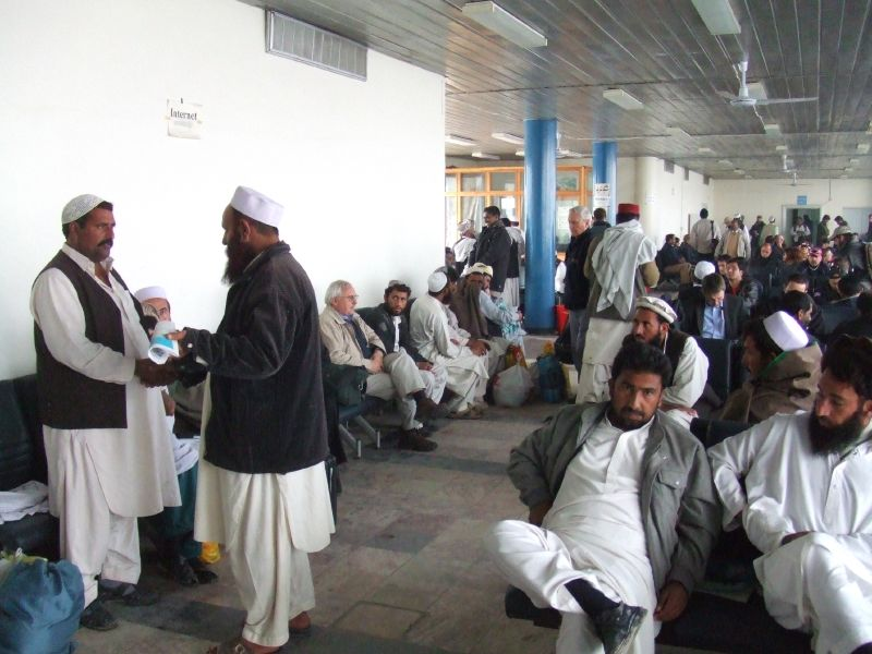 Inside The Old Terminal Of Kabul International Airport